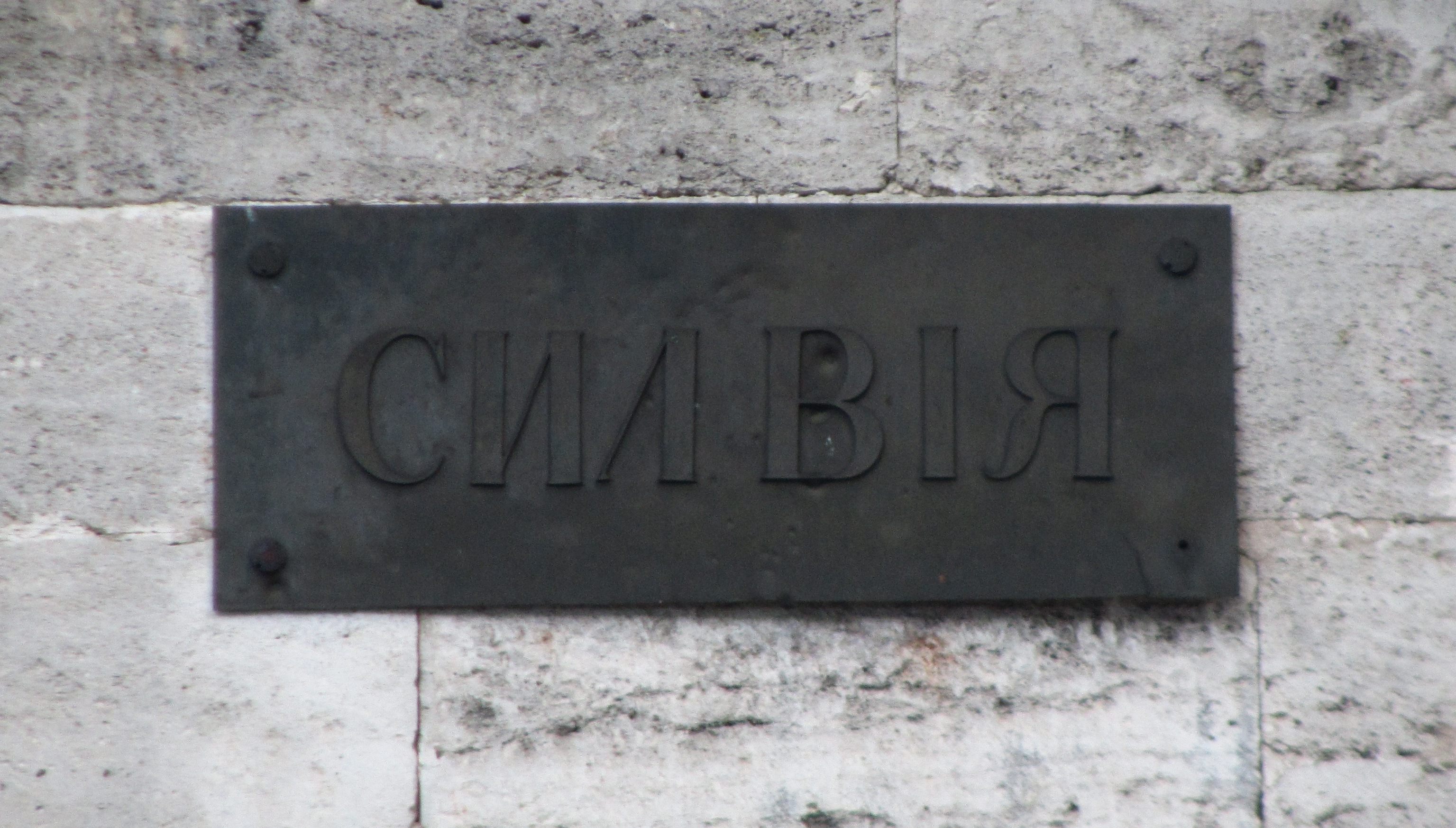 an inscription in pre-1917 reform russian orthography reading "Sylvia"